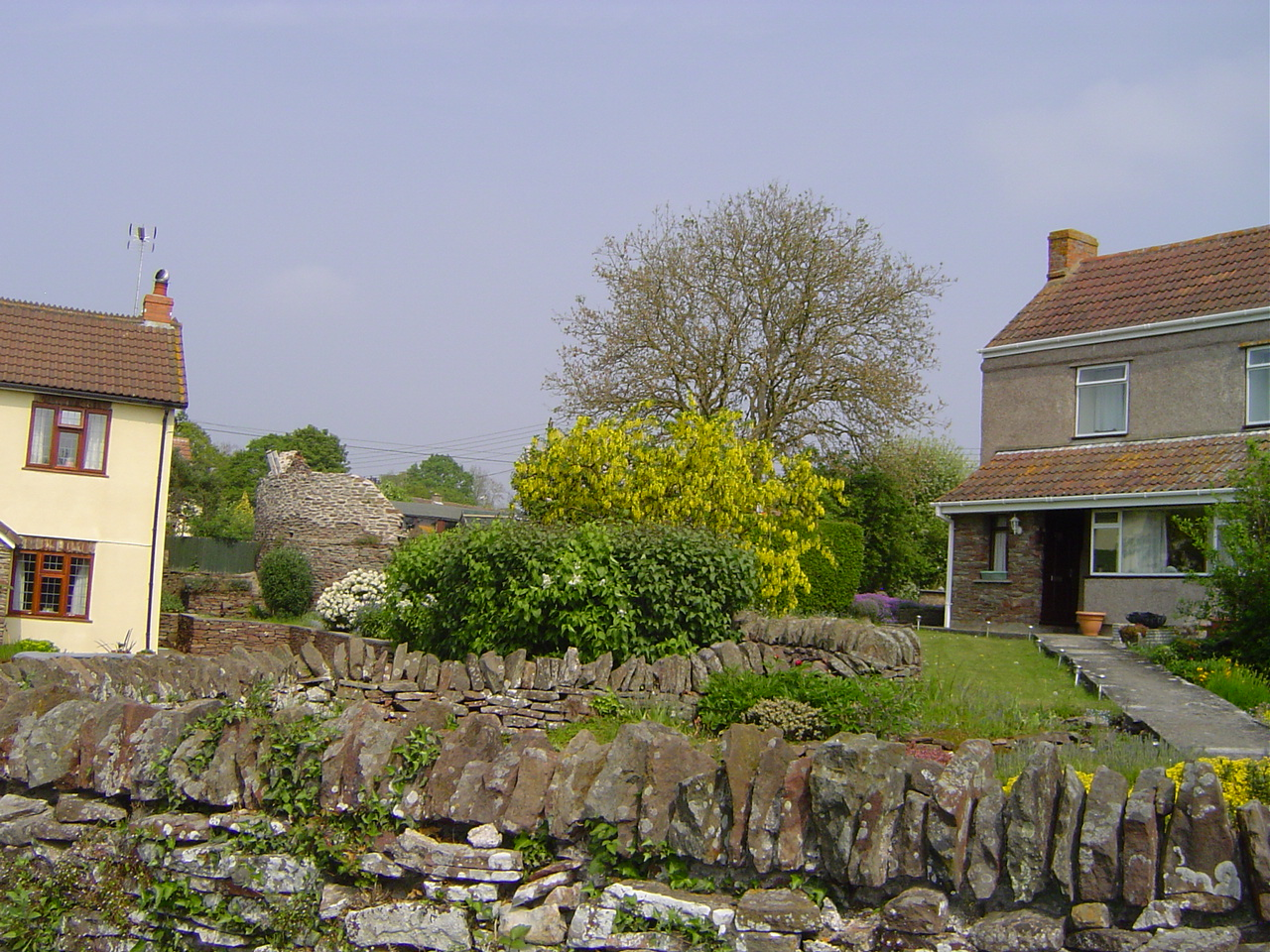 Former colliery settlement of Henfield - with a relic from its industrial past between the two buildings.